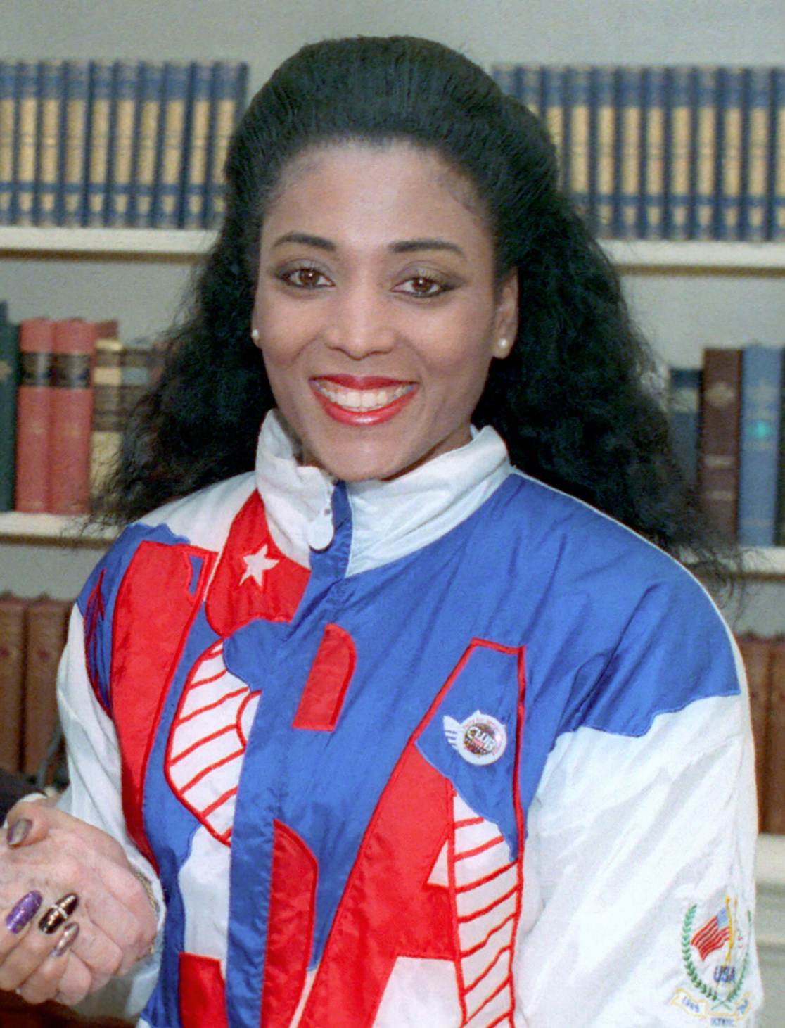 Florence Griffith Joyner of the U.S. Olympic team in the oval office. 10/24/88.